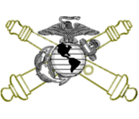 4th batallion 14th marines